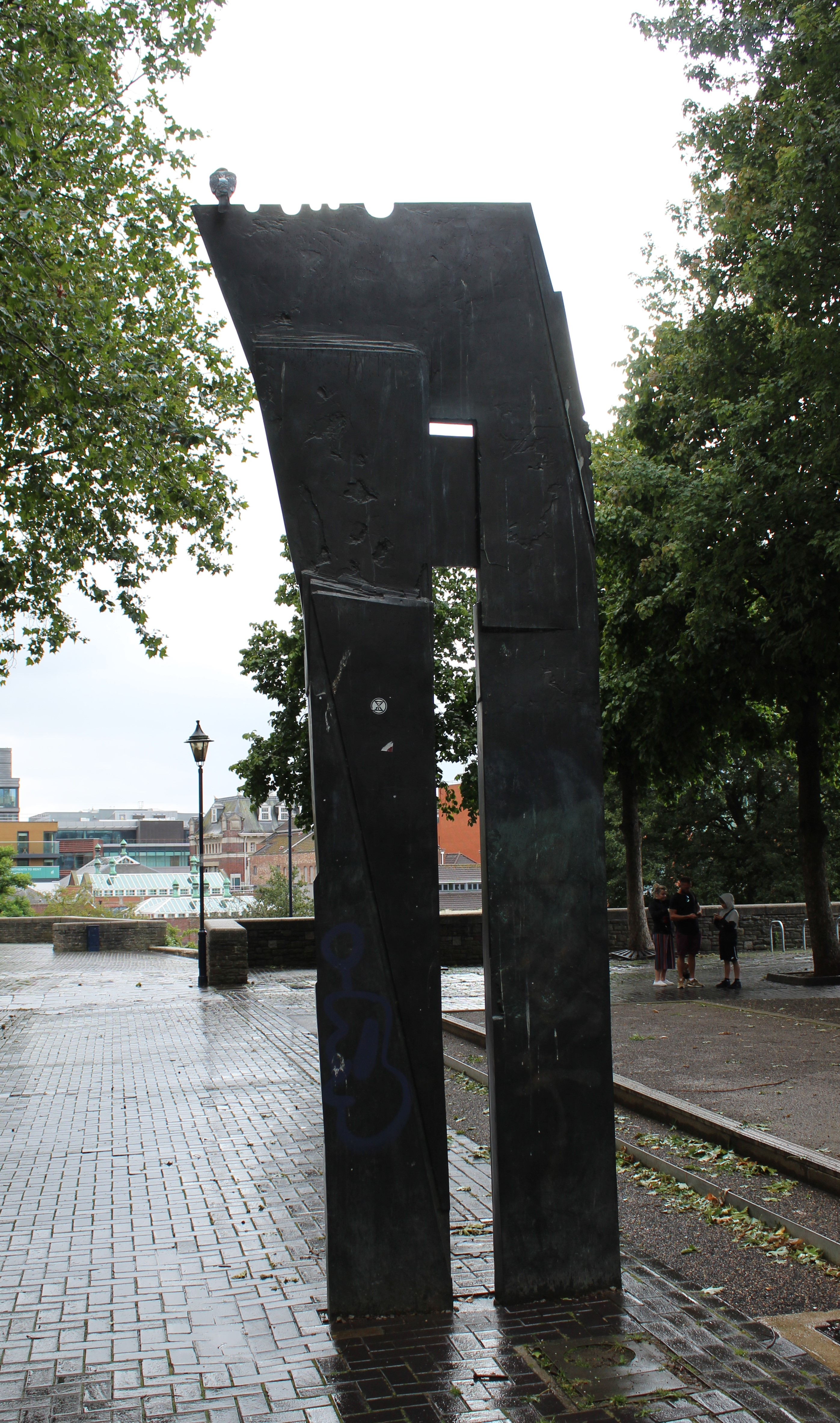 "Lines from Within", a large abstract sculpture in metal, by Ann Christopher (1993) in Castle Park Bristol